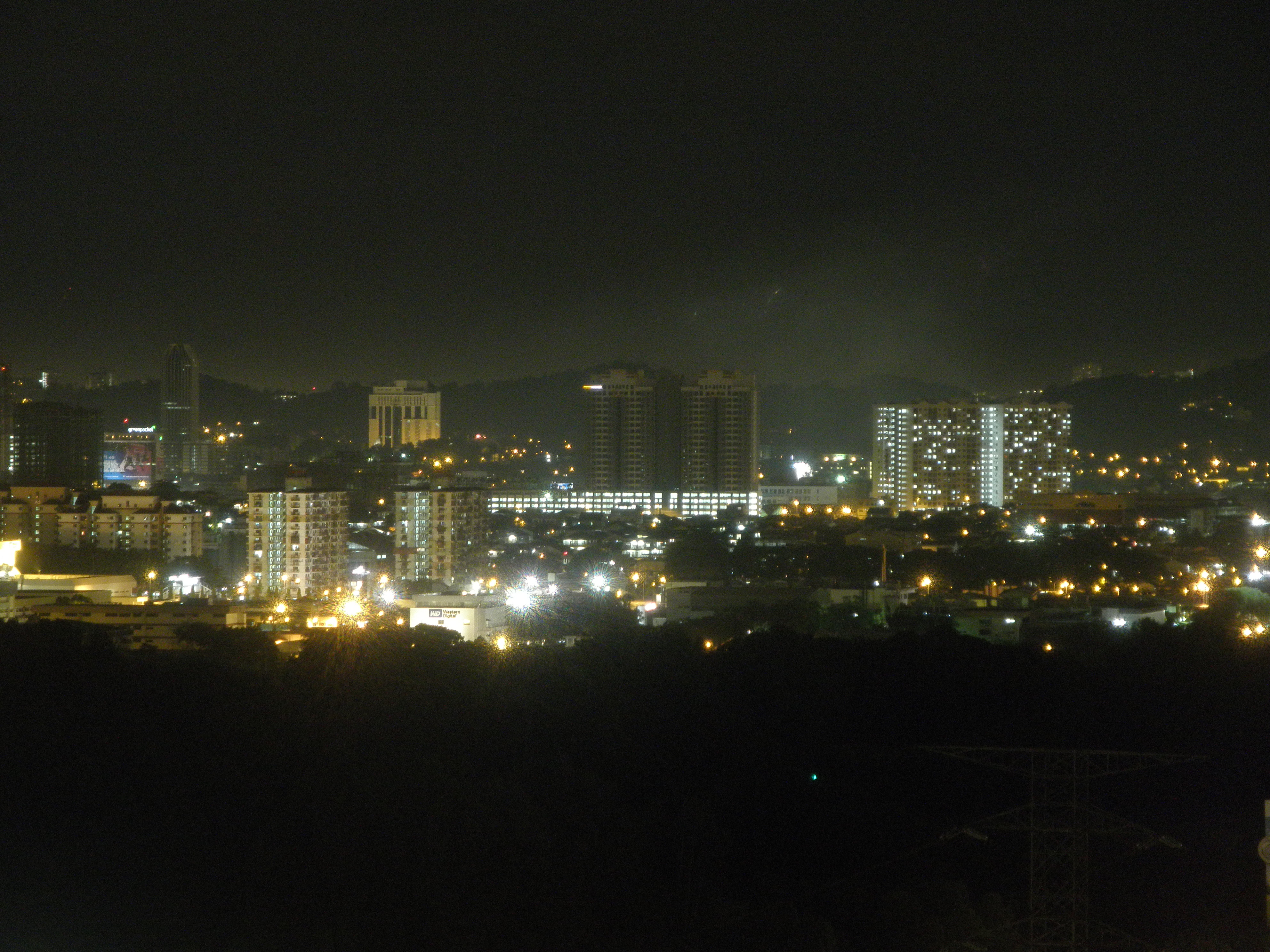 Moving my camera towards the east, I've spotted several apartments which are still lit up, eventhough its midnight. The two lower ones which are closer is the PKNS SS3/39 Apartments. The dark tower in the middle with the bright complex below is Residency Park 51 which is newly constructed. The one with tons of lighted windows is Impian Seri Setia Apartment Park 51. If you are observant enough, you will notice MBPJ Tower in the distance. Photographed from my 19th floor apartment at SS16, Subang Jaya.